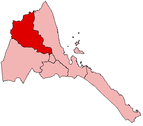 Map of Eritrea showing the Anseba Region; created with the GIMP. Made by User:Acntx